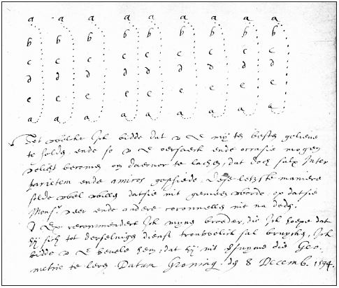 From a letter that William Louis of Nassau wrote to his cousin Maurice of Nassau illustrating his idea of the musketry volley technique (countermarch). Each of the letters "a," "b," "c," etc. represents one soldier. Willem Lodewijk of Nassau-Dillenburg letter to Maurice of Nassau, 8 December 1594.